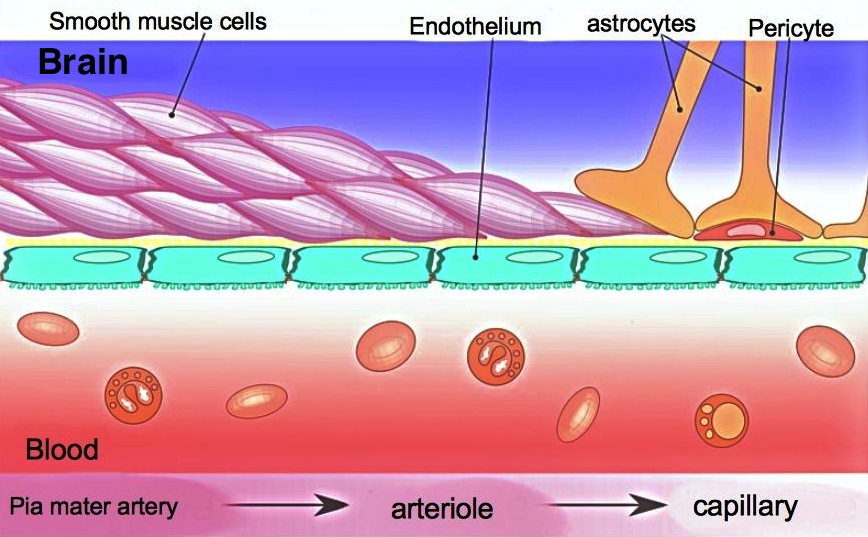 A schematic sketch of blood vessels in the brain.